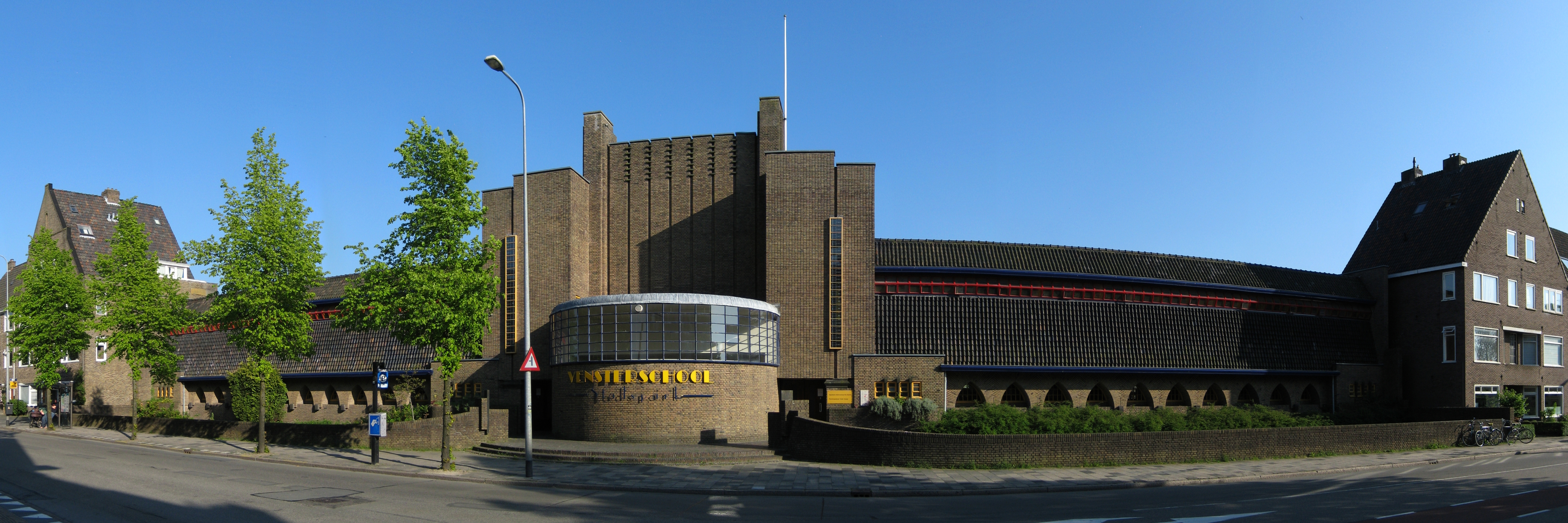 School (1927) in the Dutch city of Groningen.